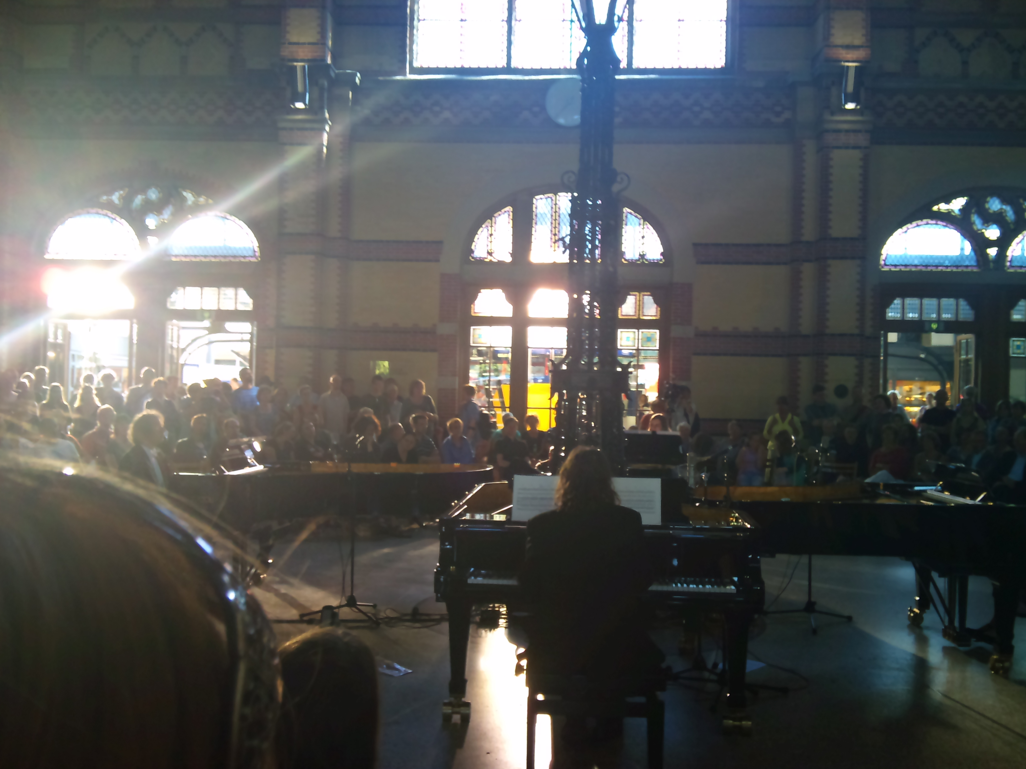 Canto ostinato in the Groningen railwaystation Simeon ten Holt's Canto ostinato for four piano's played in the hall of the Groningen main railwaystation. I had to miss the first half hour but the next hour and fourtyfive minutes were excellent anyway. I stood with my back to the main entry which provided a cool breeze whilst looking a the sunlit hall where four pianists played a marvelous version of Canto ostinato.